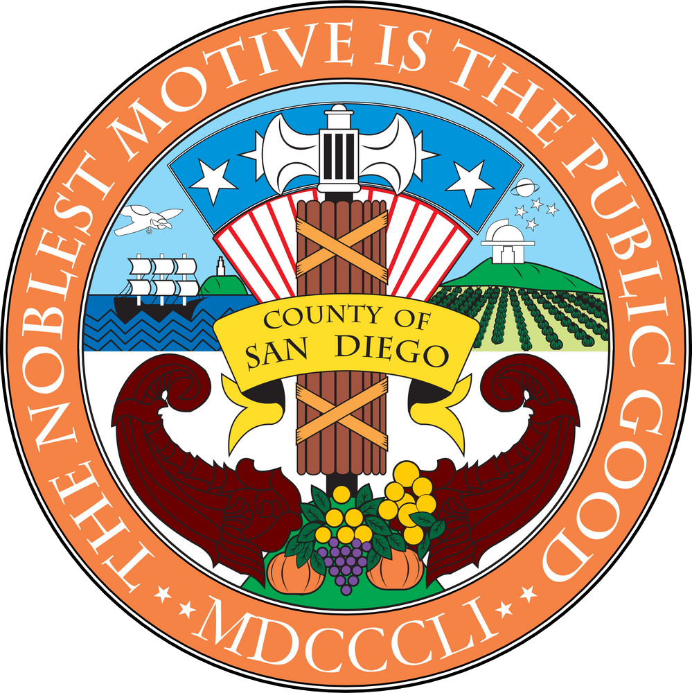 The official seal of the County of San Diego.